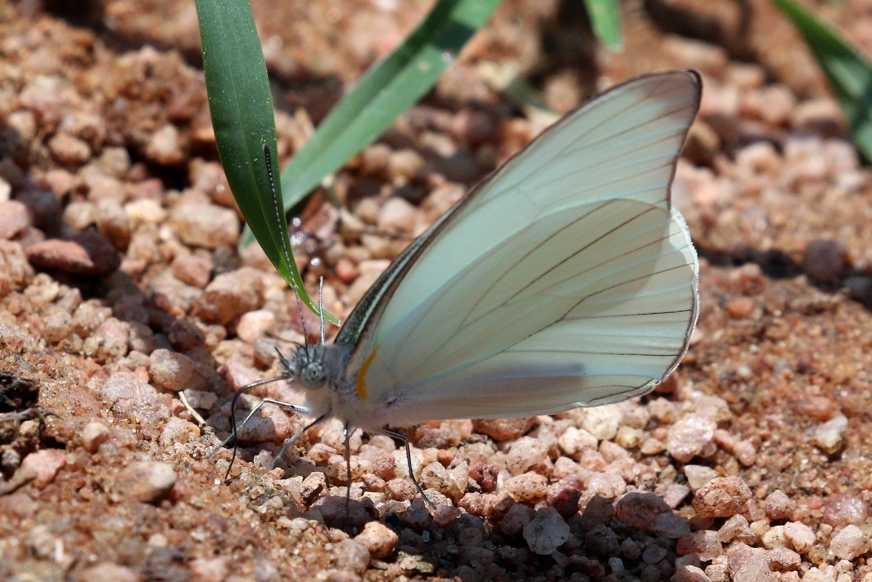 Godart's white (Ganyra phaloe), Cristalino River, Southern Amazon, Brazil